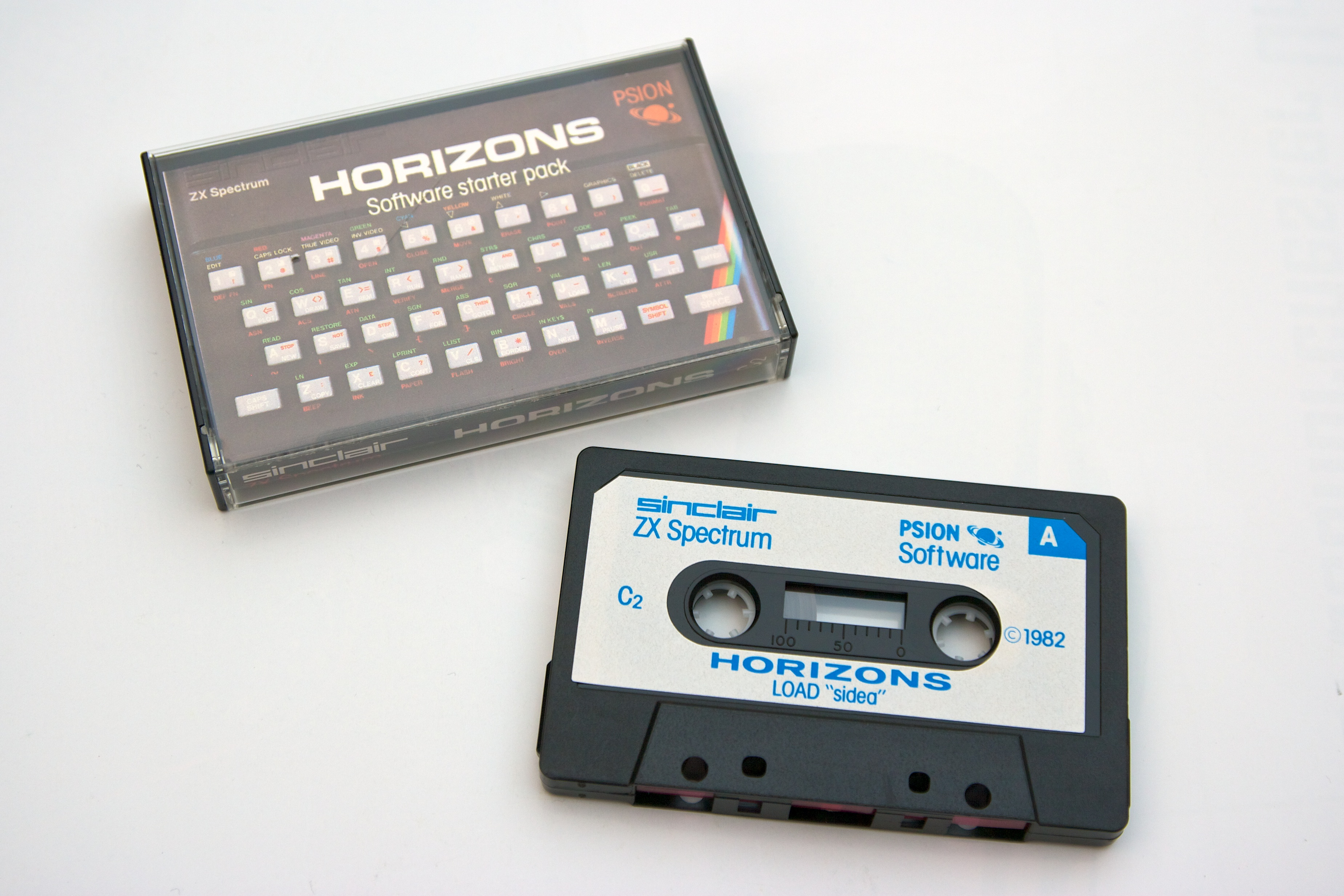 Psion Software Horizons software starter pack cassette for ZX Spectrum. The software page on WoS